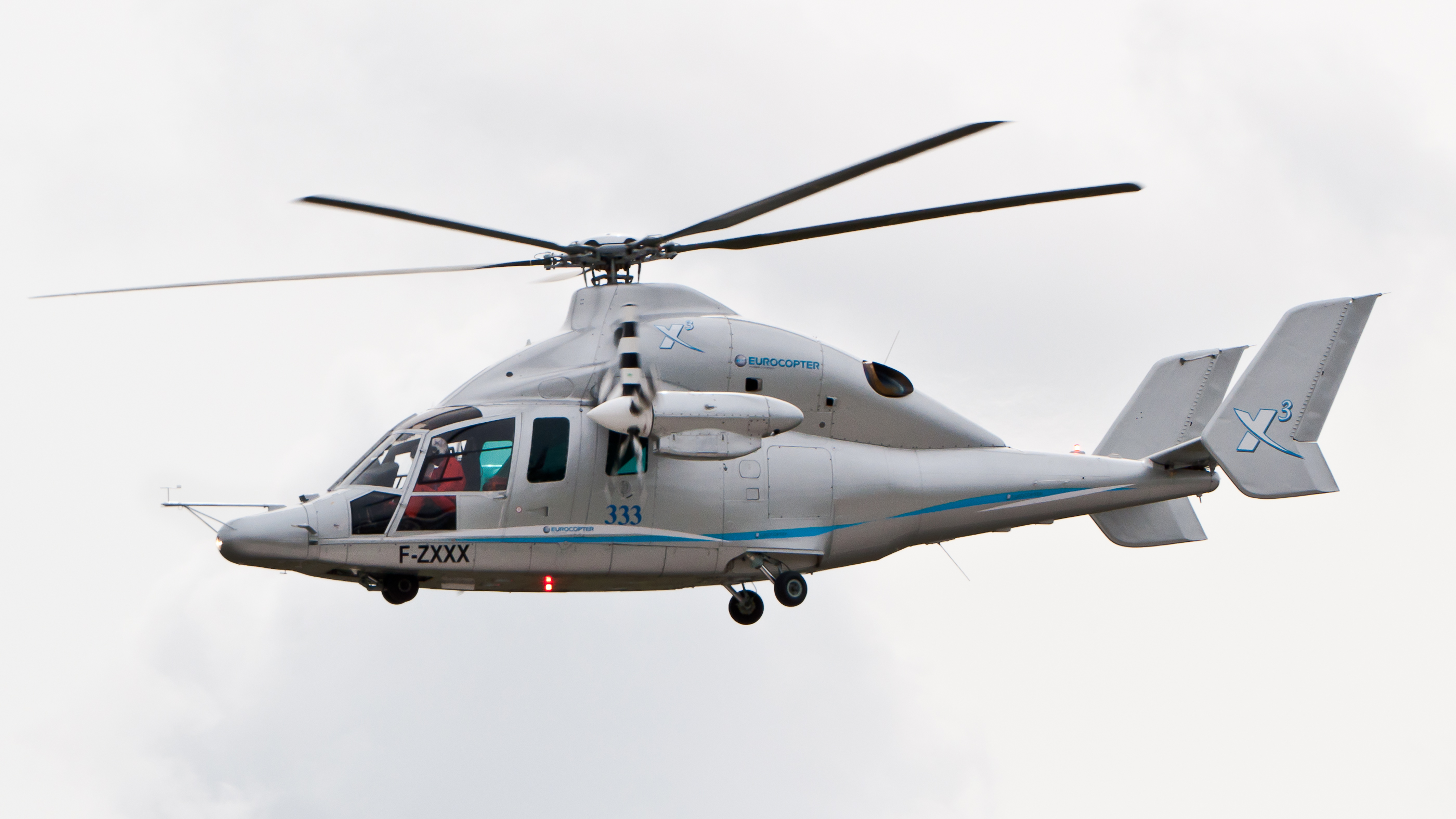 Eurocopter X3 (cn 1, Prototype, reg. F-ZXXX) high-speed helicopter flying a display at ILA Berlin Air Show 2012.